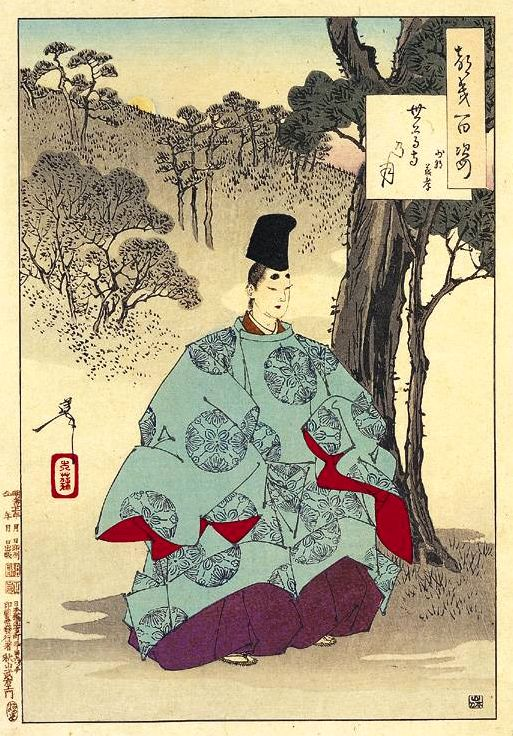 Seson temple moon (Sesonji no tsuki)